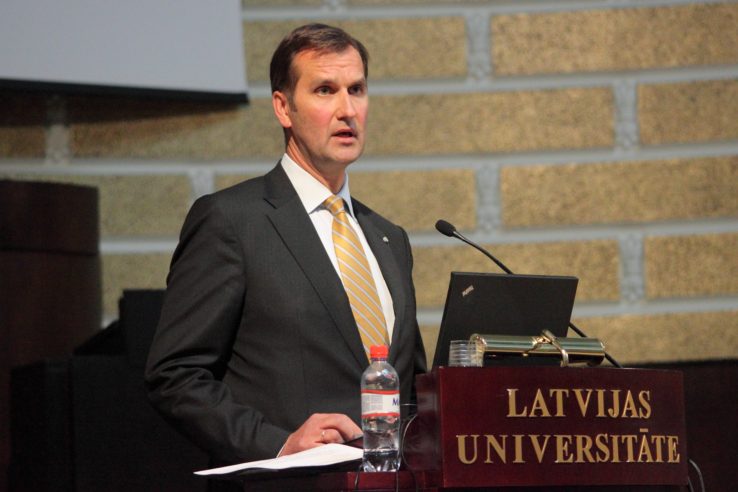 Maris Riekstins giving a lecture at the University of Latvia